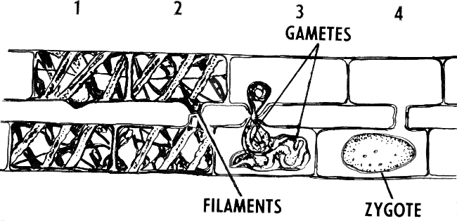 b/w line art drawing of a conjugation